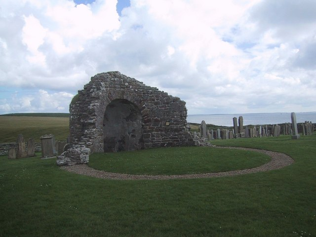 Remains of Round Church at the Earl's Bu, Orphir